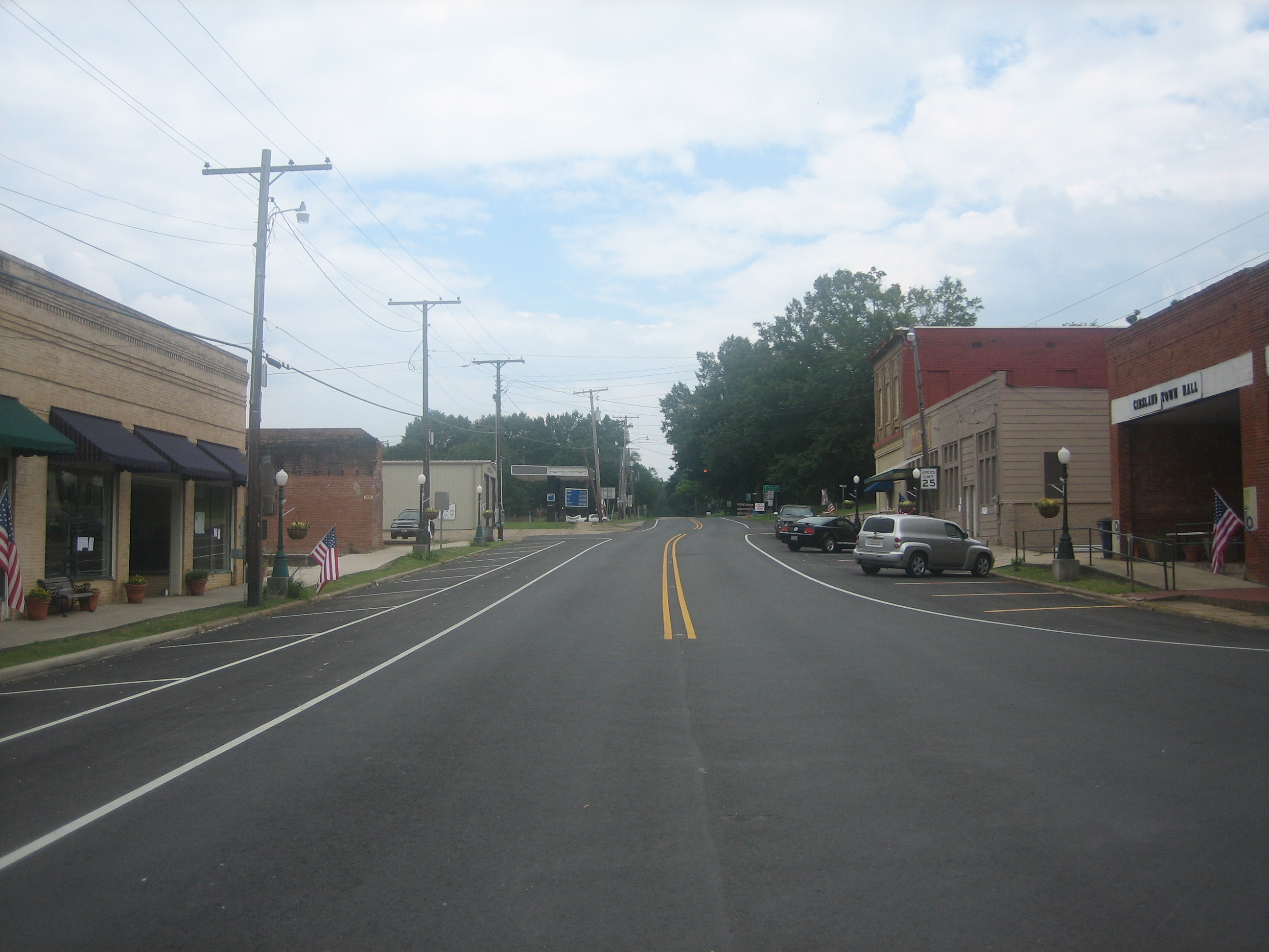 Downtown Gibsland, Louisiana, 2009. I took photo on May 25, 2009. Billy Hathorn (talk) 02:08, 30 May 2009 (UTC)